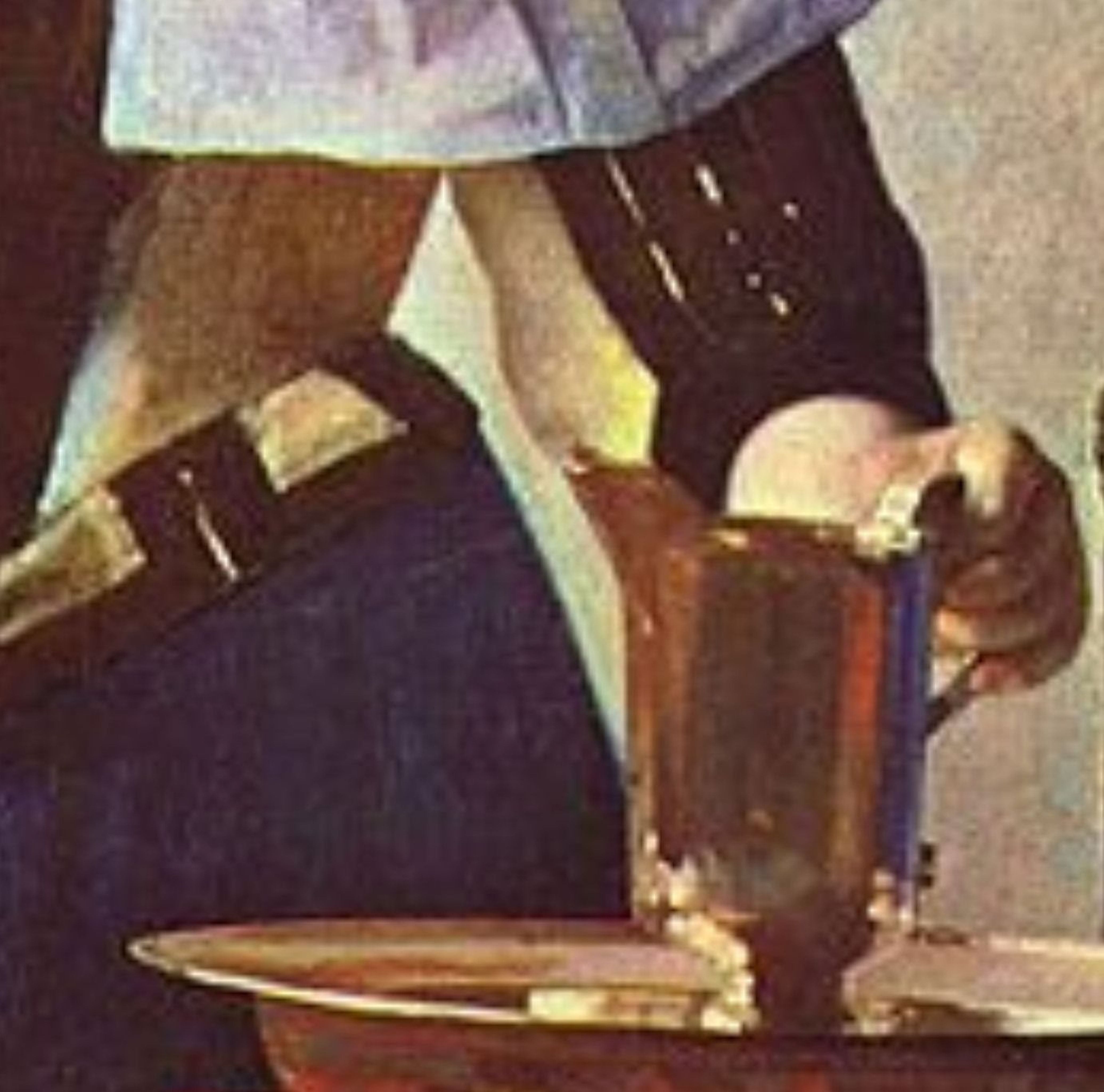 Detail of Woman with a Water pitcher by Johannes Vermeer